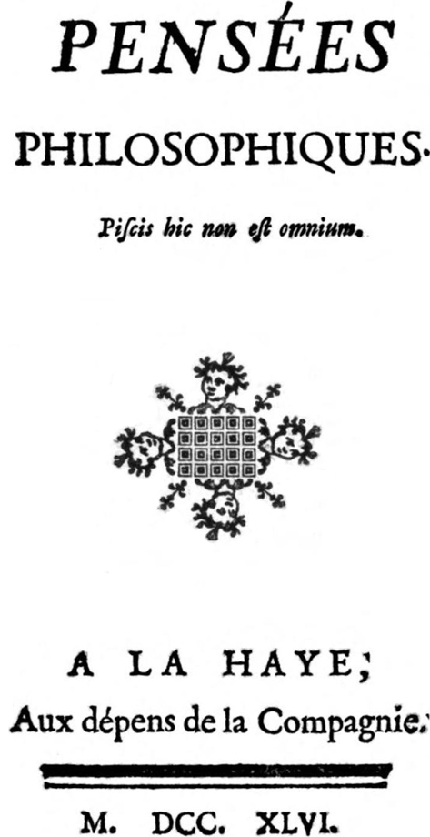 Philosophical Thoughts (1746) by Denis Diderot (1840-1902)